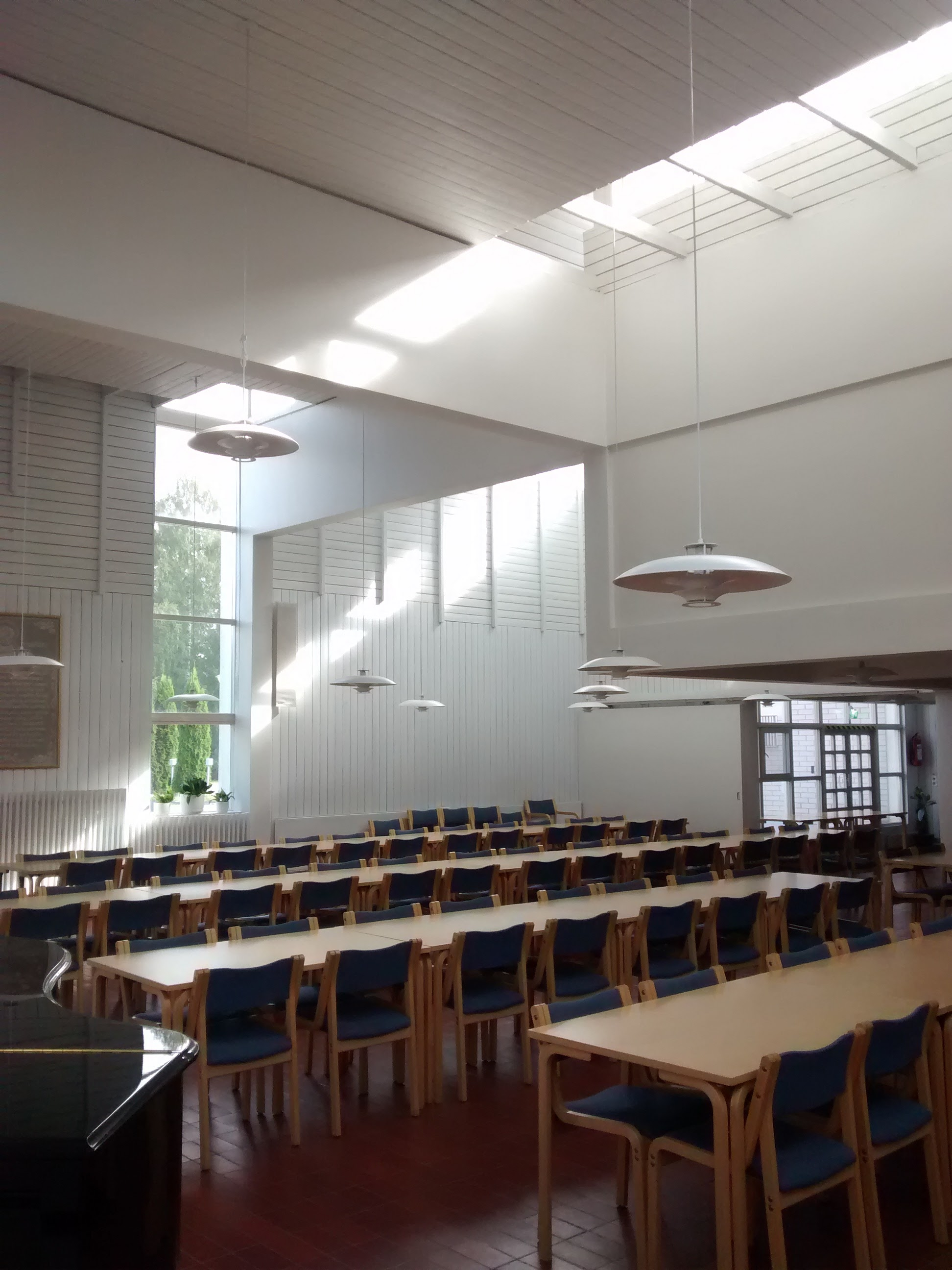 Architect: Juha Leiviskä, 1970